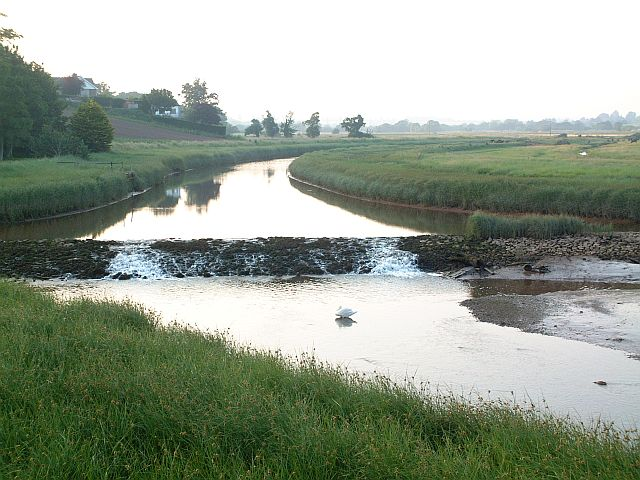 Weir, Clyst Bridge, Topsham This is the weir on the River Clyst at Topsham, looking upstream from the bridge where the Exeter/Exmouth Road crosses the Clyst at the Bridge Inn. Upstream from here, the Clyst here meanders over a farmed floodplain. To the west, the land rises to the sandstone ridge on which Topsham is built.